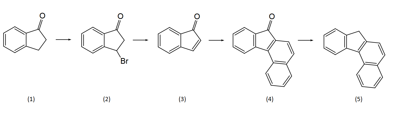 This image displays the steps needed for the synthesis of benzo(c)fluorene (5)